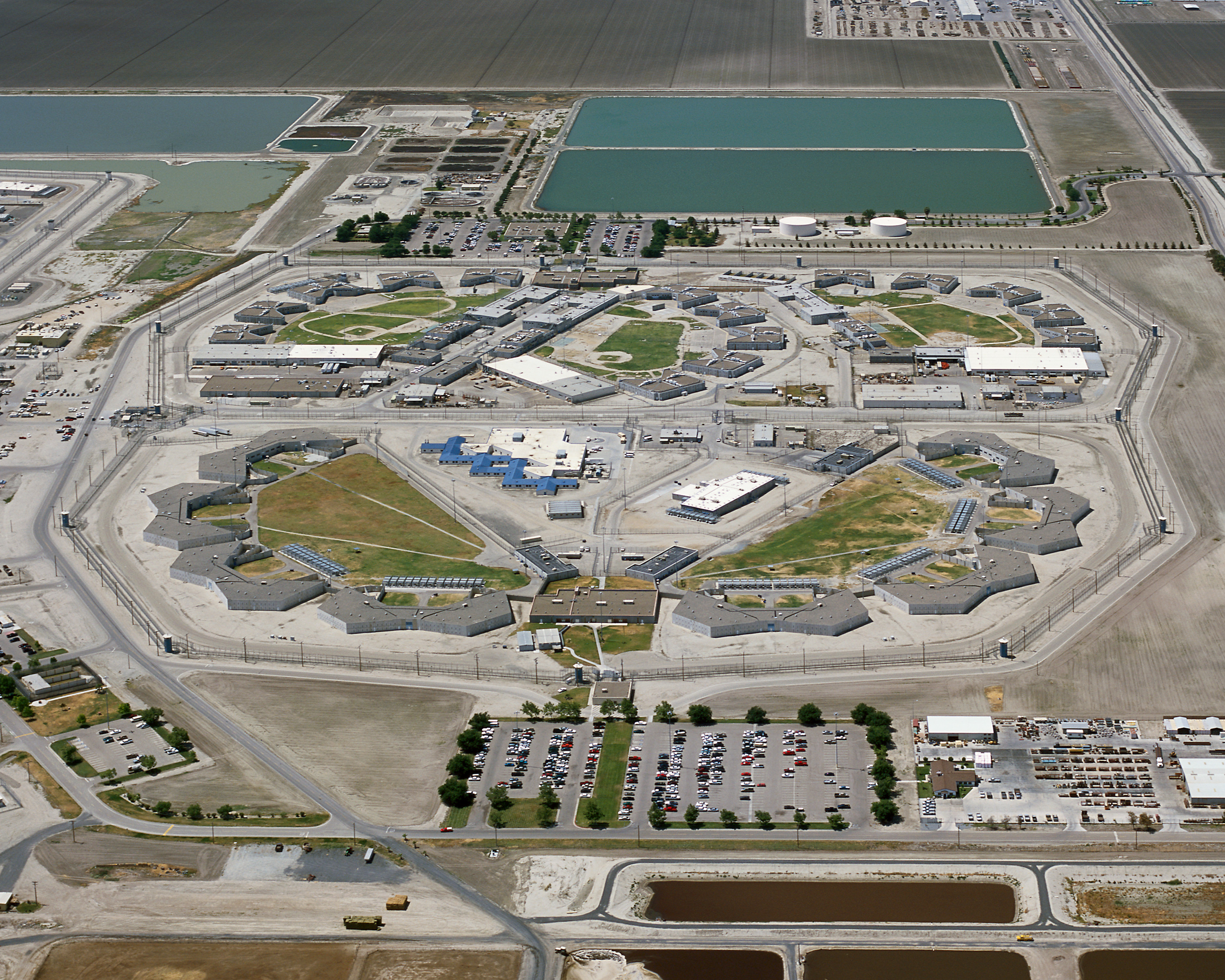 Aerial view of Corcoran State Prison, in Corcoran, California. Taken from the prison's website at From the site's Conditions of Use: "In general, information presented on this web site, unless otherwise indicated, is considered in the public domain. It may be distributed or copied as permitted by law."